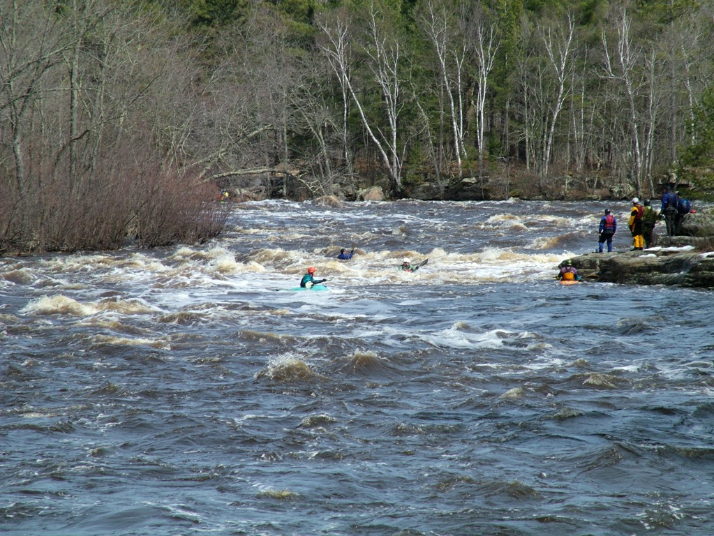 Kayakers shooting Blueberry Slide. Aaron Fulkerson